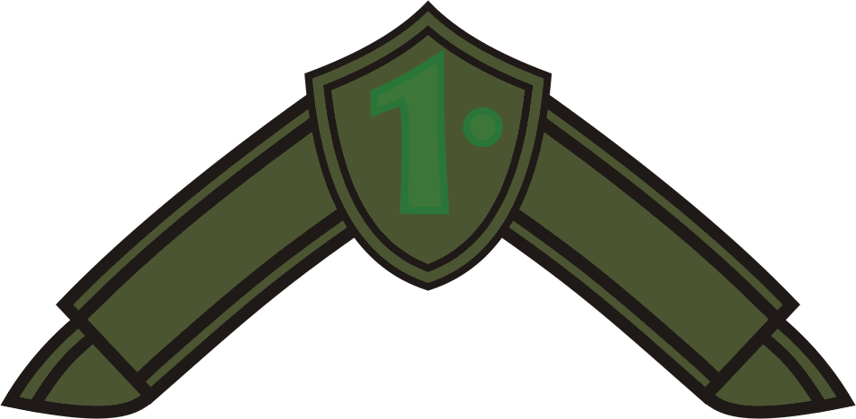 Brigade emblem of the 1st Infantry Brigade of the Estonian Army.